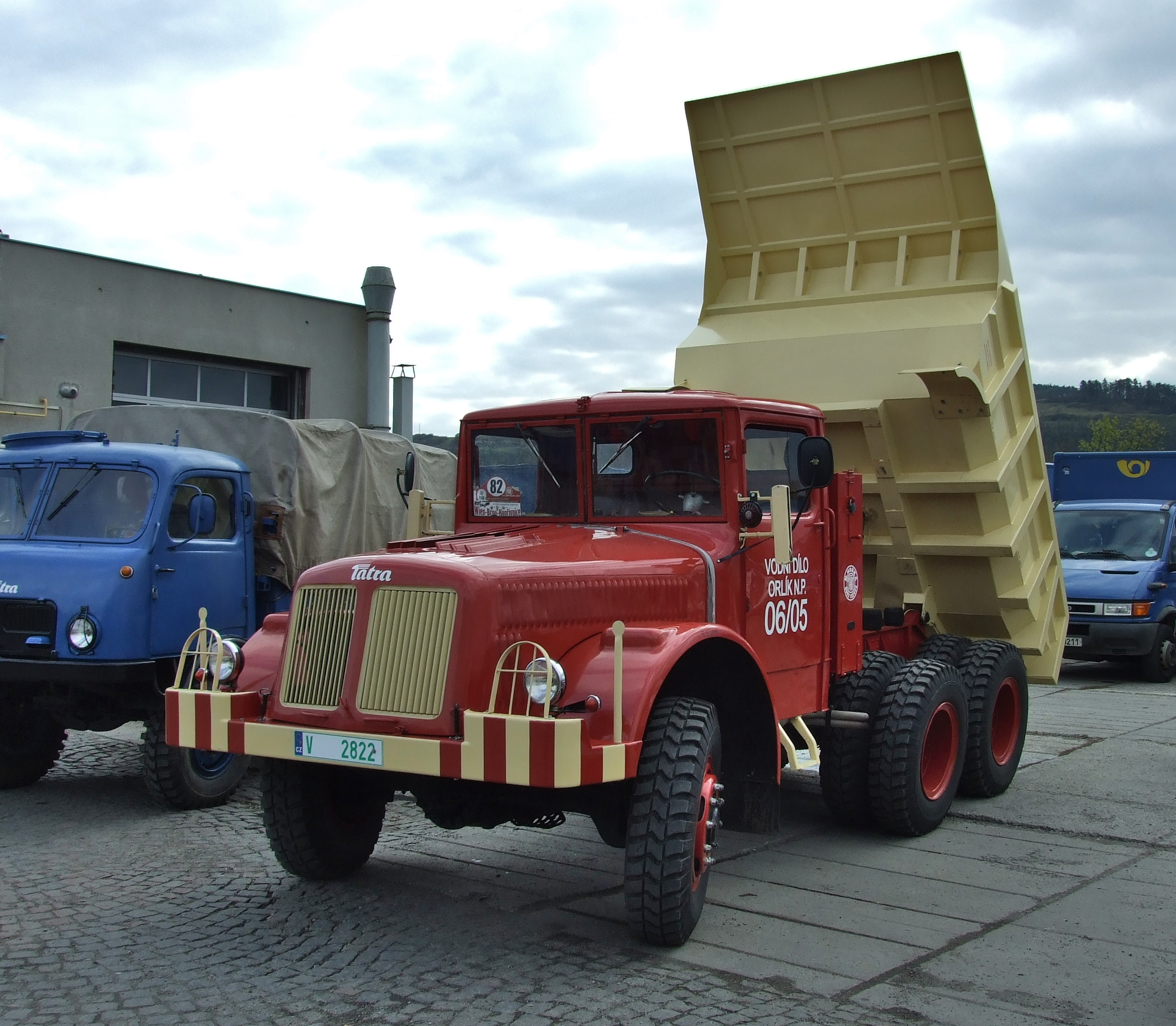 Truck Tatra 147